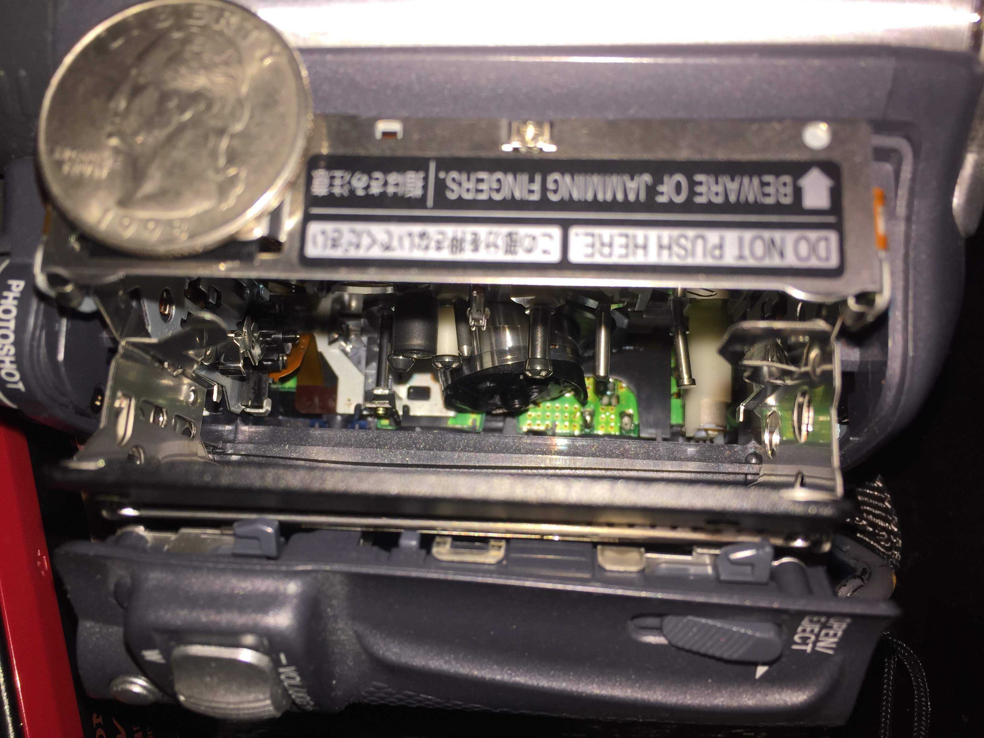 DV tape mechanism in a Panasonic Palmcam camcorder